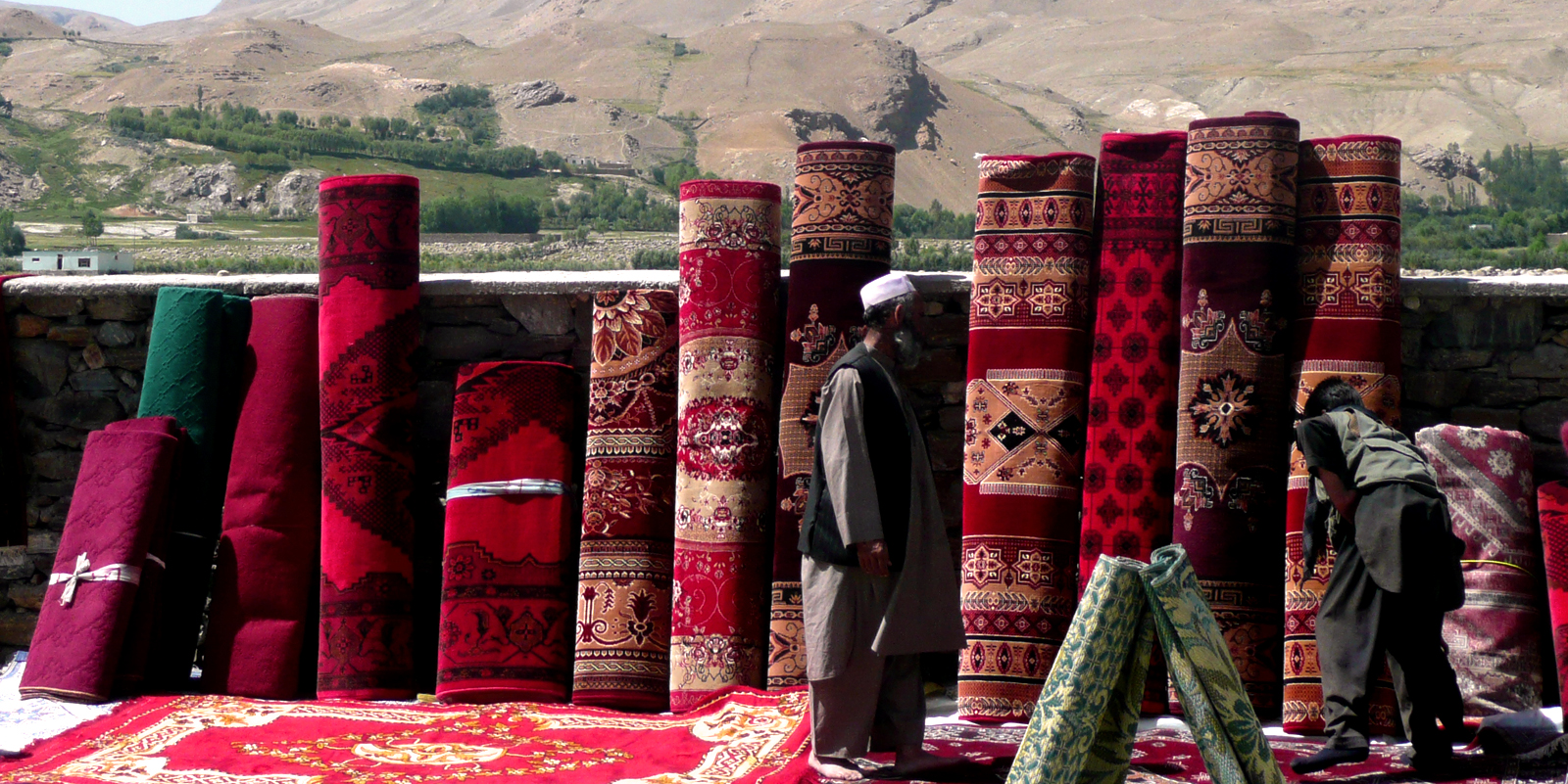 A natural salesman, the boy displays a collection of his finest Afghan carpets against the stunning backdrop of the Pamir Mountains. Photo by Alida Bata of the United Kingdom.